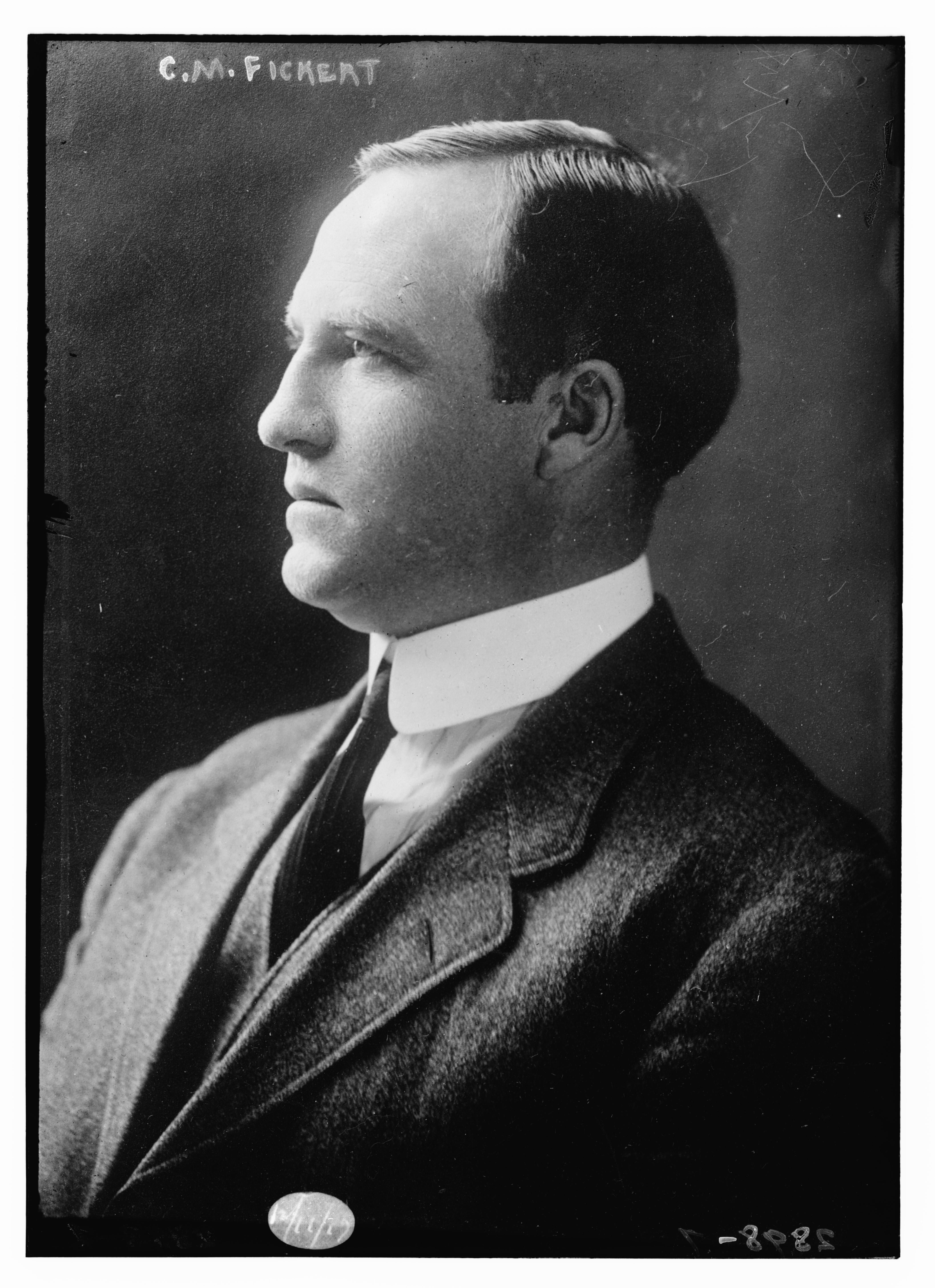 C.M. Fickert (LOC) Bain News Service,, publisher. C. M. Fickert [between ca. 1910 and ca. 1915] 1 negative : glass ; 5 x 7 in. or smaller. Notes: Title from unverified data provided by the Bain News Service on the negatives or caption cards. Forms part of: George Grantham Bain Collection (Library of Congress). Format: Glass negatives. Repository: Library of Congress, Prints and Photographs Division, Washington, D.C. 20540 USA, General information about the Bain Collection is available at Persistent URL: Call Number: LC-B2- 2898-7